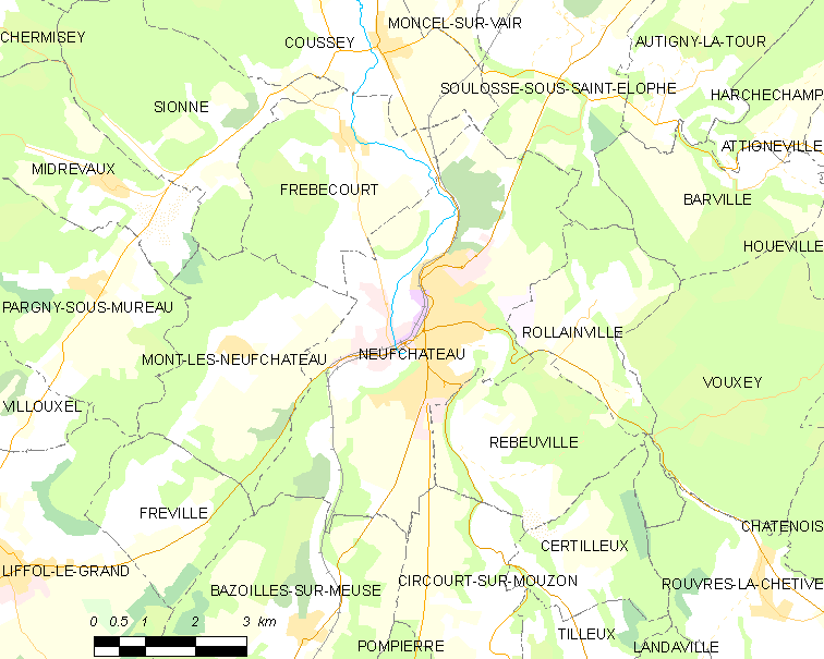 Map of French municipality Neufchâteau